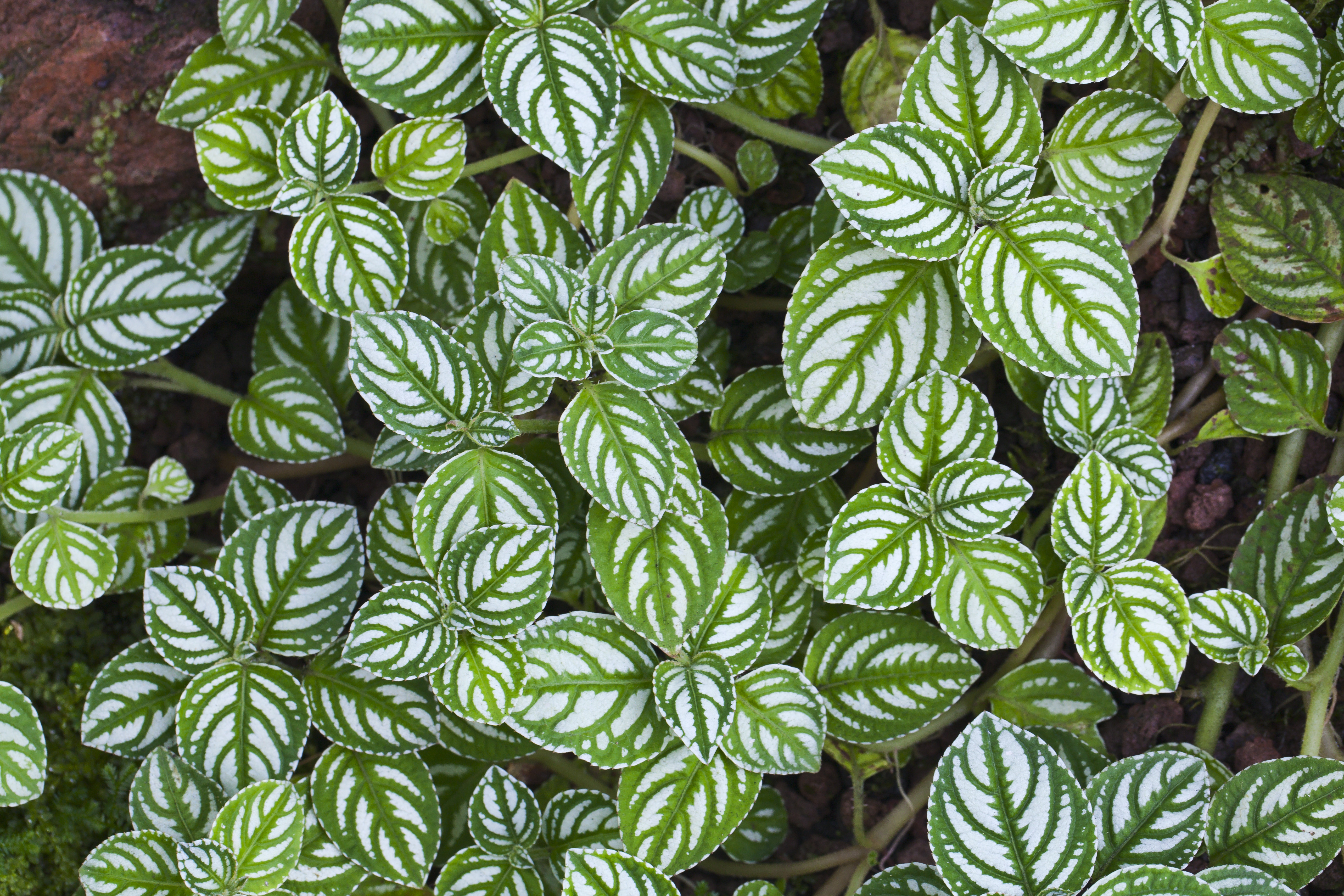 Impatiens marianae, Munich Botanic Garden, Germany